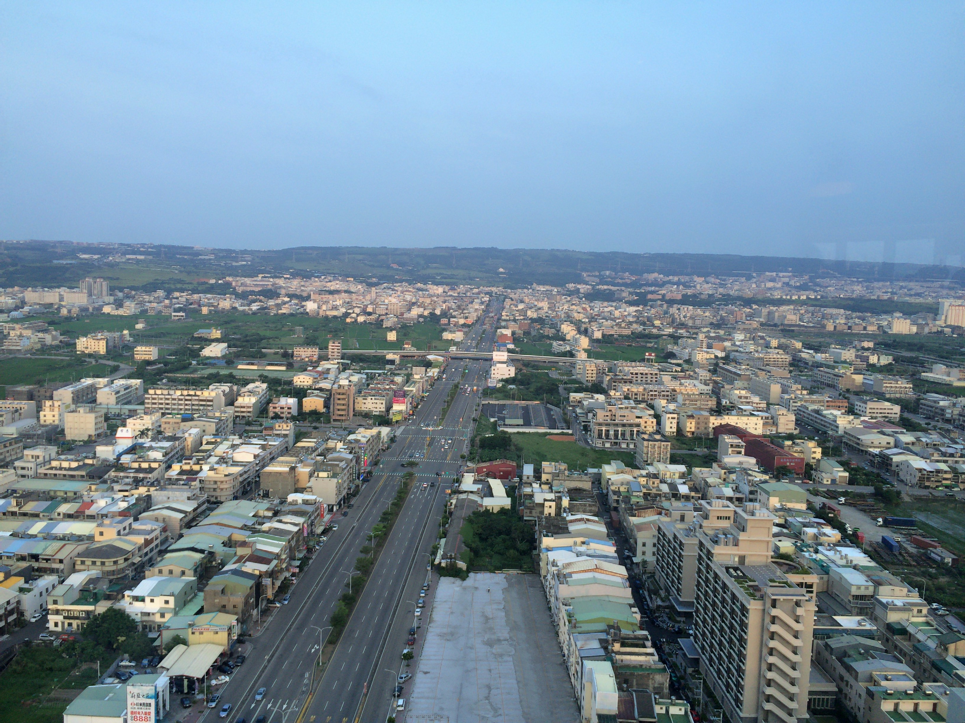 East view from the top of Tungs' Taichung MetroHarbor Hospital.